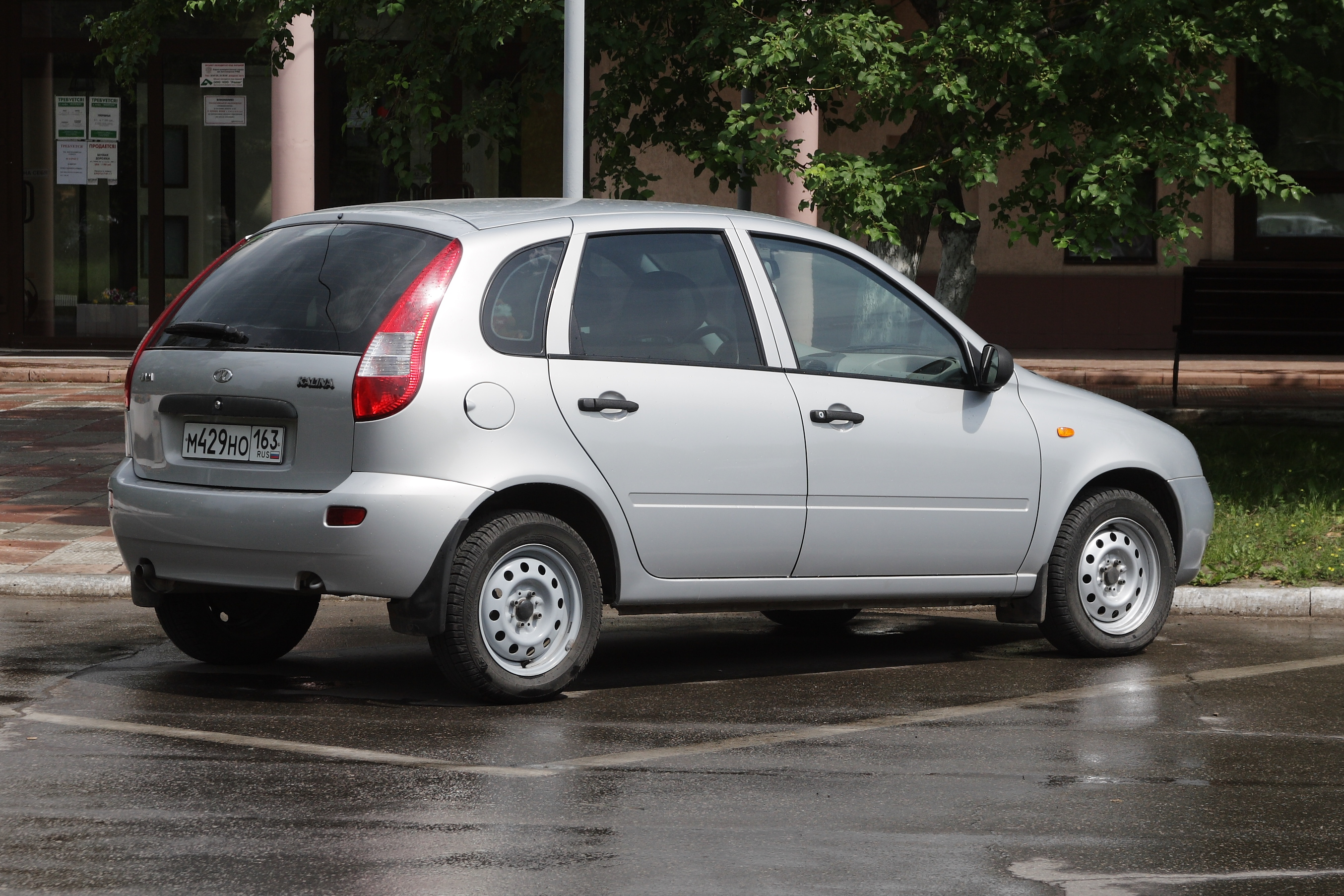 Lada Kalina hatchback in Tolyatti.